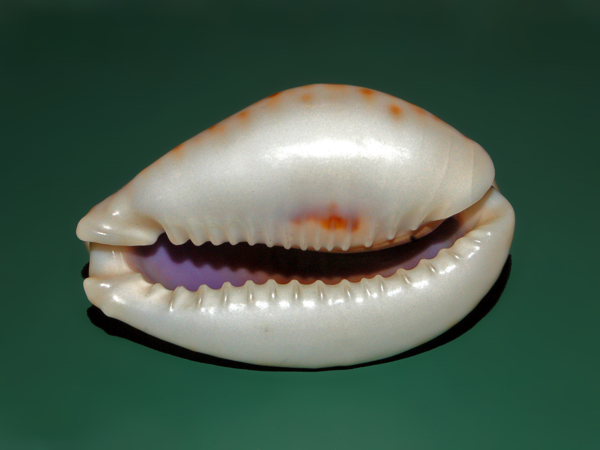 Naria turdus